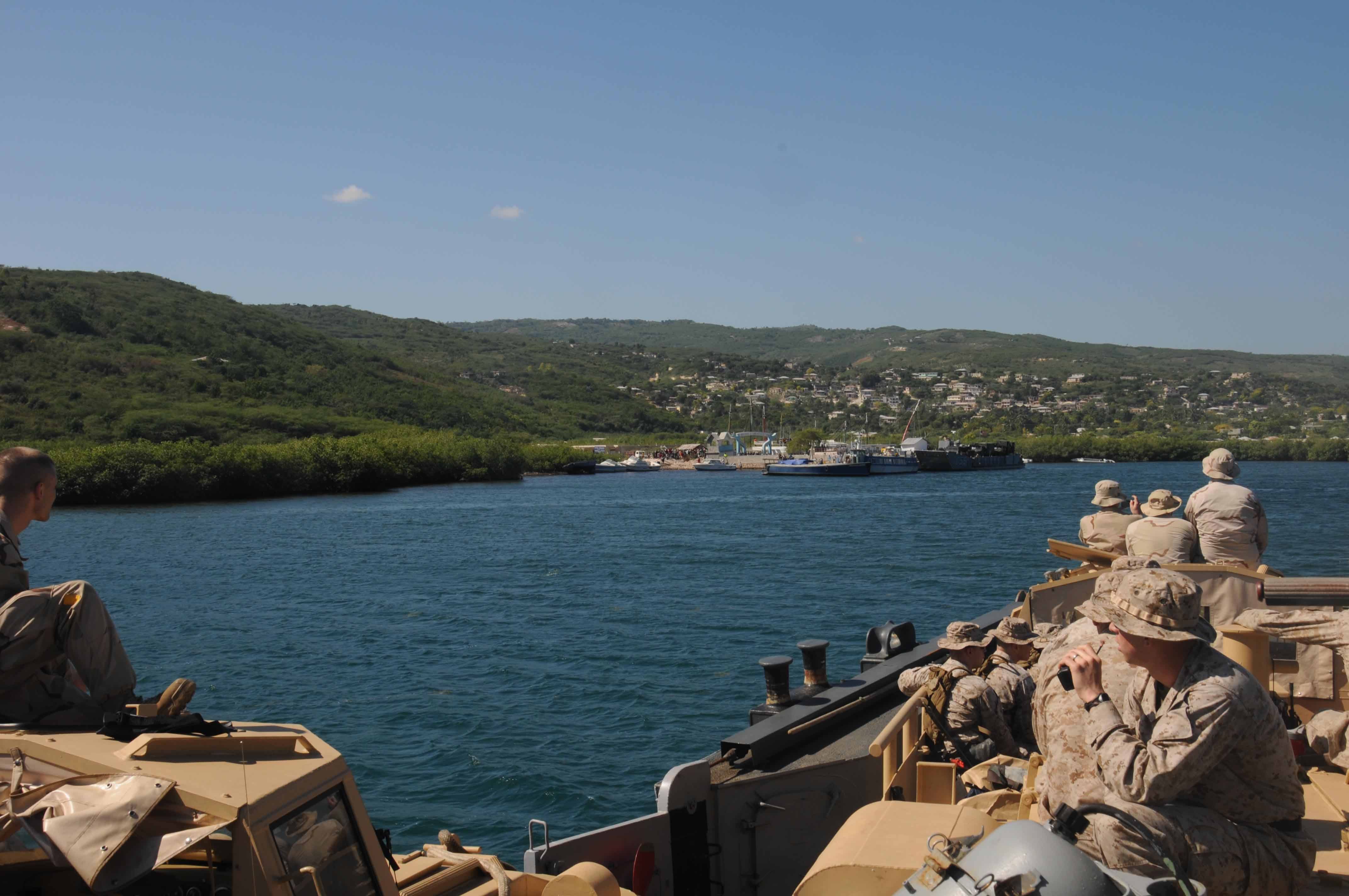 SAINT MARC, Haiti (Jan. 25, 2010) Sailors assigned to the amphibious assault ship USS Nassau (LHA 4) approach Saint Marc, Haiti to deliver food and water. Nassau is supporting Operation Unified Response following a 7.0 magnitude earthquake that caused severe damage in Haiti Jan. 12. (U.S. Navy photo by Mass Communication Specialist 3rd Class Desiree Green/Released)